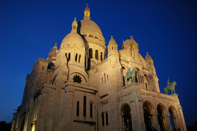 View of Sacre-Coeur, Montmartre at night.